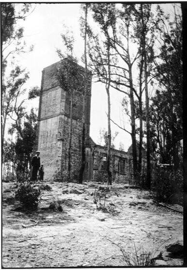 This photograph is part of the Australian National Maritime Museum's collection of nitrate negatives taken by Harold Nossiter and his son Harold Nossiter Junior in the 1920s and 1930s. Harold Nossiter (senior) was a noted Sydney sailor in the 1920s and 1930s who became the first Australian to skipper a yacht around the world under an Australian flag. This photo is thought to have been taken on one of Harold Nossiter's UTIEKAH II cruises to Twofold Bay and the town of Boydtown, New South Wales in 1929. The Australian National Maritime Museum undertakes research and accepts public comments that enhance the information we hold about images in our collection. If you can identify a person, vessel or landmark, write the details in the Comments box below. Thank you for helping caption this important historical image. Object no. 00014127